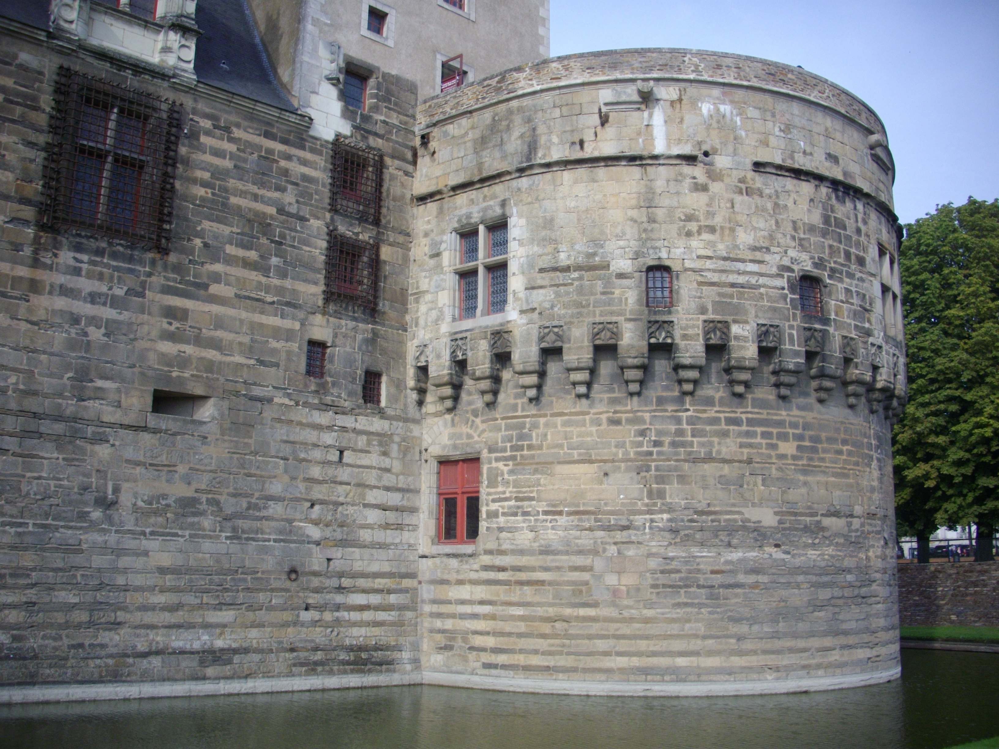 Castle of the dukes of Brittany in Nantes (Loire-Atlantique, France), River tower .